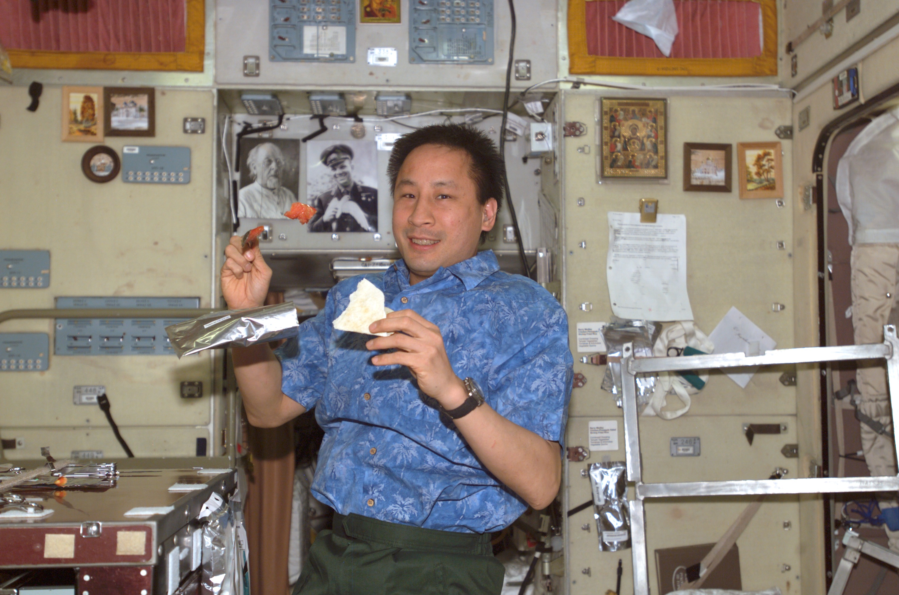 Astronaut Edward T. Lu, Expedition 7 NASA ISS science officer and flight engineer, eats a meal in the Zvezda Service Module on the International Space Station (ISS).